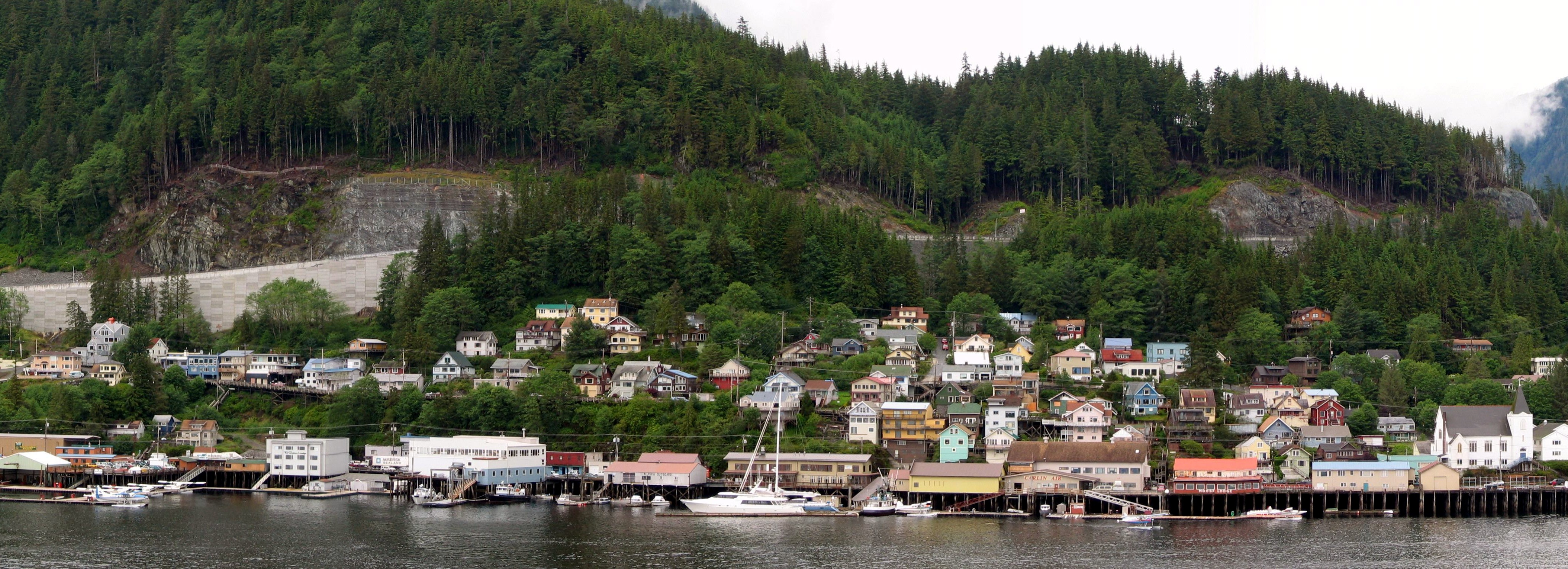 View of the shoreline of Ketchikan, Alaska, from the Serenade of the Seas in July 2005.